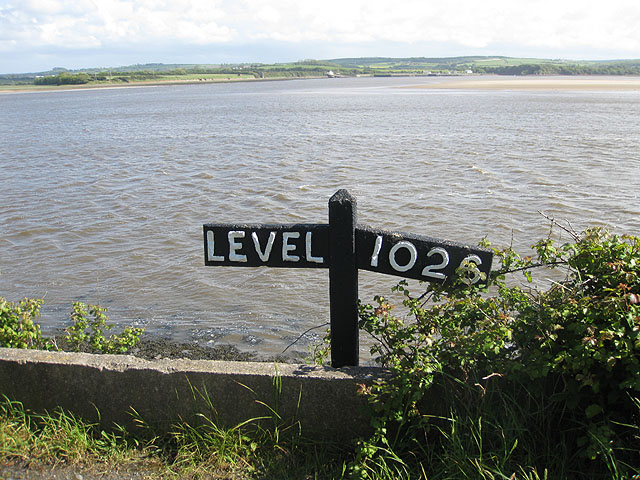 Across the Taw from the South West Coast Path View Southeast. This is a gradient post on the old Barnstaple to Ilfracombe railway, showing the gradient changing from 'level' to 'downhill, 1 foot in every 1026 feet' With thanks to Paul Smith for the information.